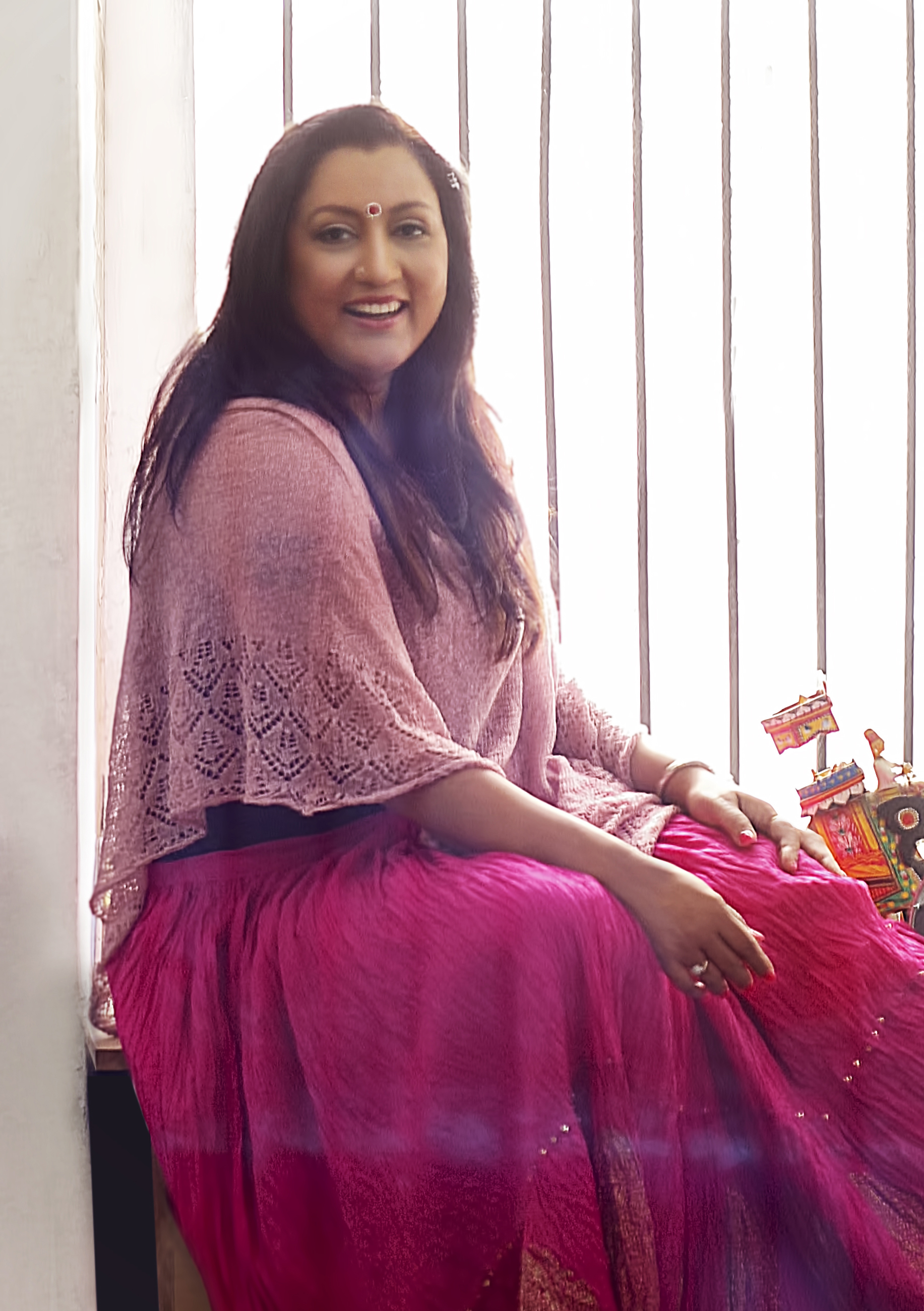 Shomshuklla